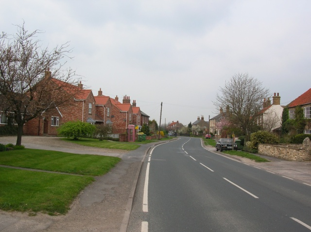 Village of Bolton, East Riding of Yorkshire, England.The centre of Bolton, a small village between Pocklington and Stamford Bridge.